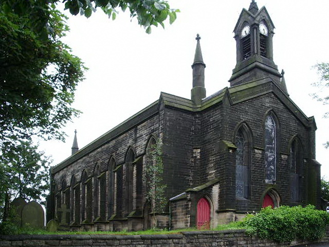 Parish church of St John the Baptist, Vicarage Drive, Smallbridge, Greater Manchester, seen from the west